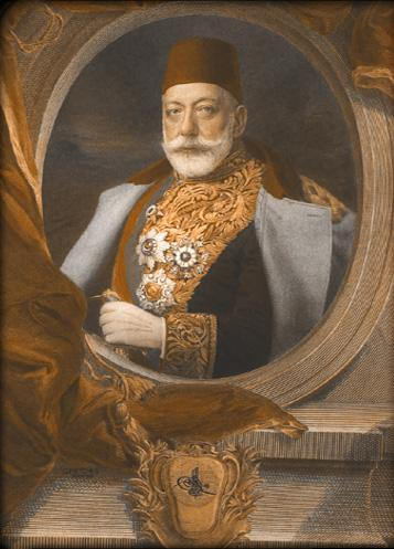 Sultan Mehmed V of the Ottoman Empire